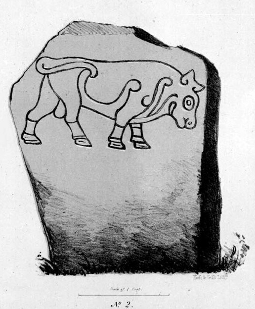 Engraving from J Stuart, The Sculptured Stones of Scotland, vol. ii, 1867, pl.xxxviii. Spalding Club, Aberdeen.